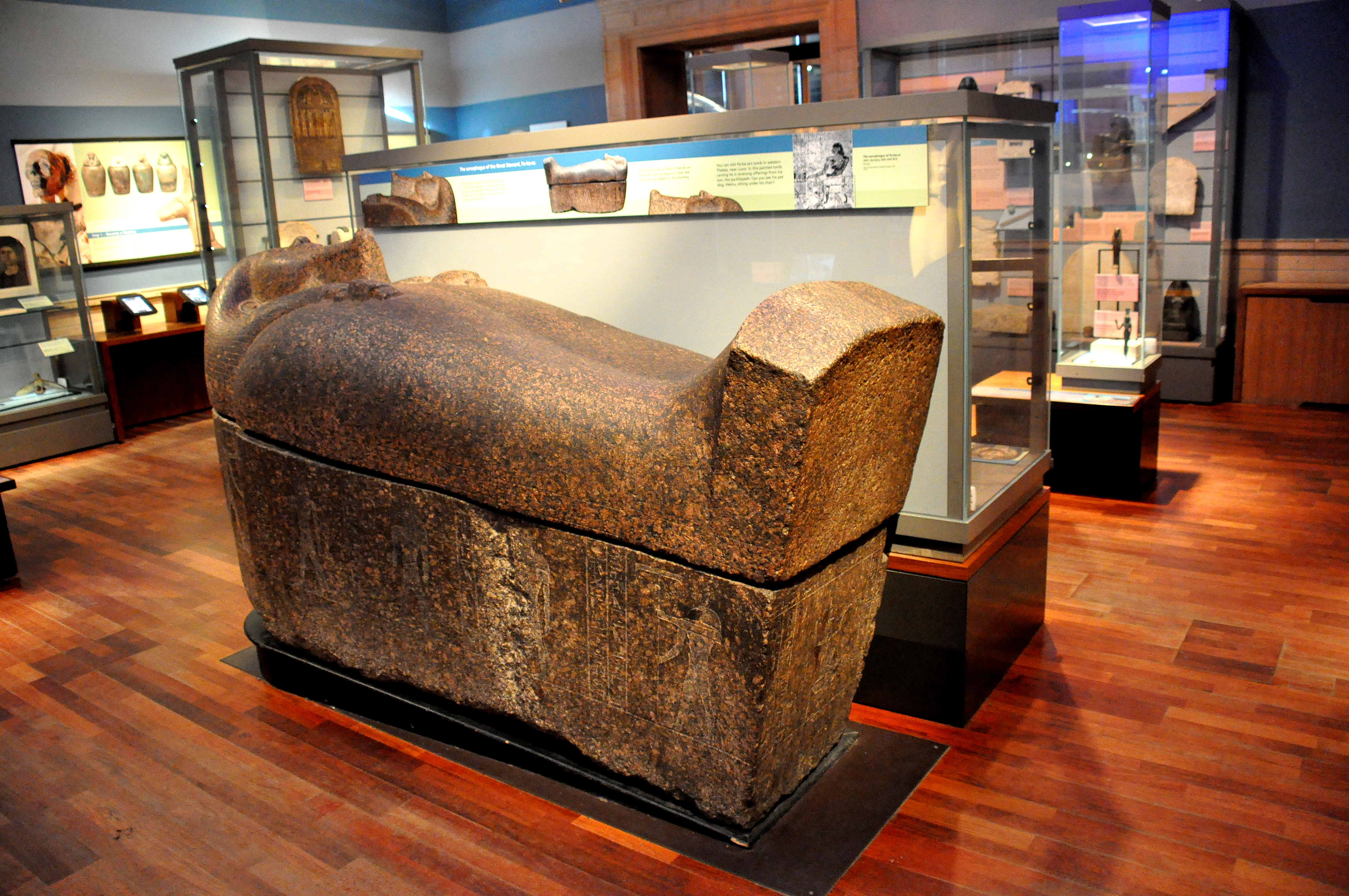 Only a very powerrful man can afford a stone sarcophagus or coffin, like this. Pa-ba-sa worked for Nitocris, who ruled Thebes as God's Wife of Amun for her father, the Pharaoh. The heiroglyphs were written in bands, on the sarcophagus to like like the linen bandge onf his mummy. Pa-ba-sa's tomb lies in Western Thebes, near Luxor. 664-610 BCE. The Kelvingrove Art Gallery and Museum, Glasgow.